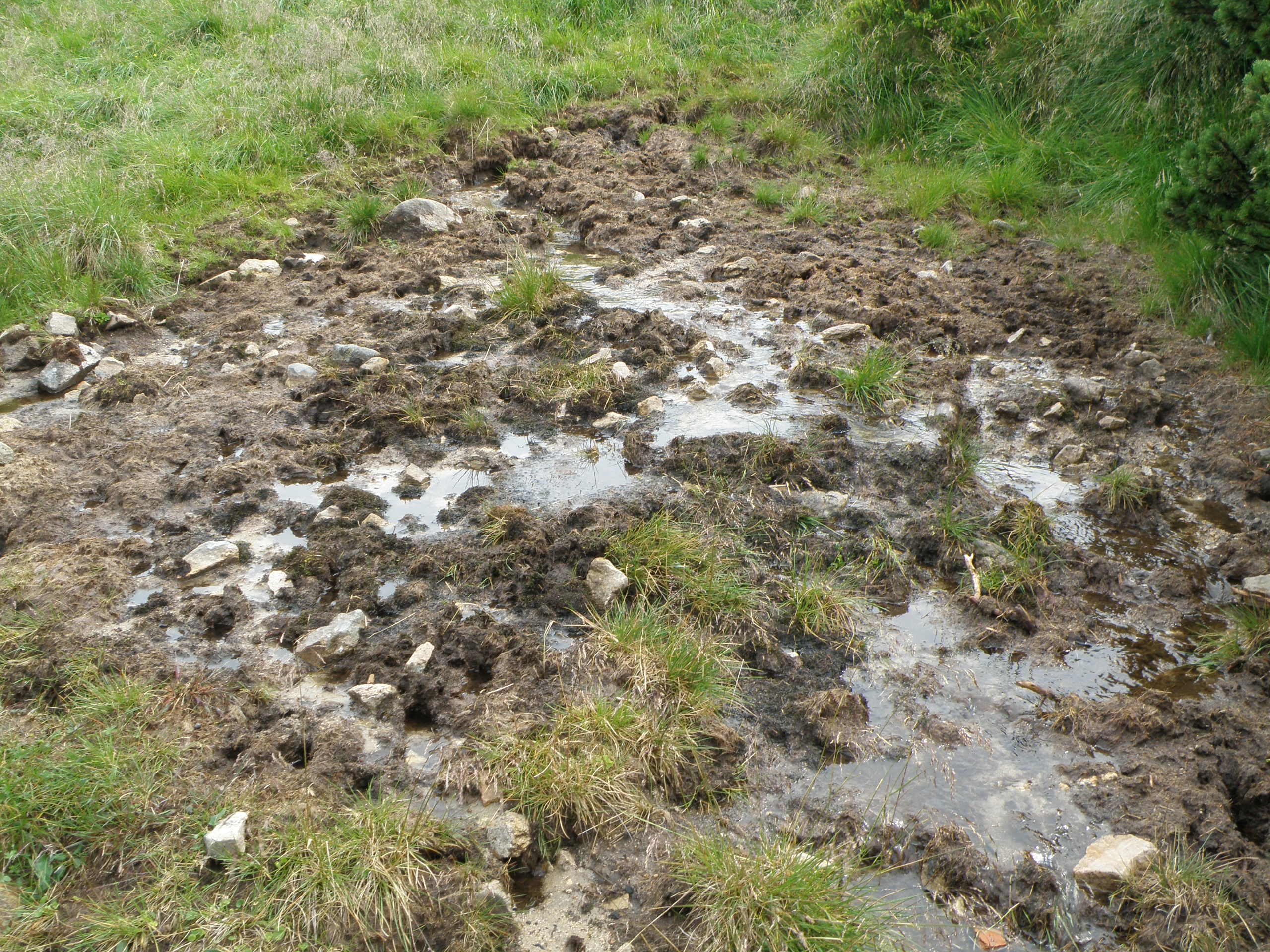 Młaka w Karkonoskim Parku Narodowym.